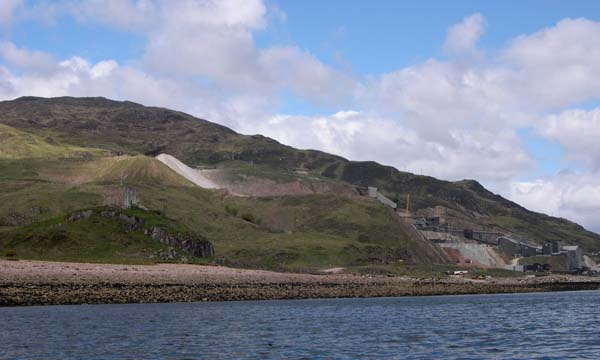 Castle at Port a Chasteil - Glensanda and the super quarry for granite